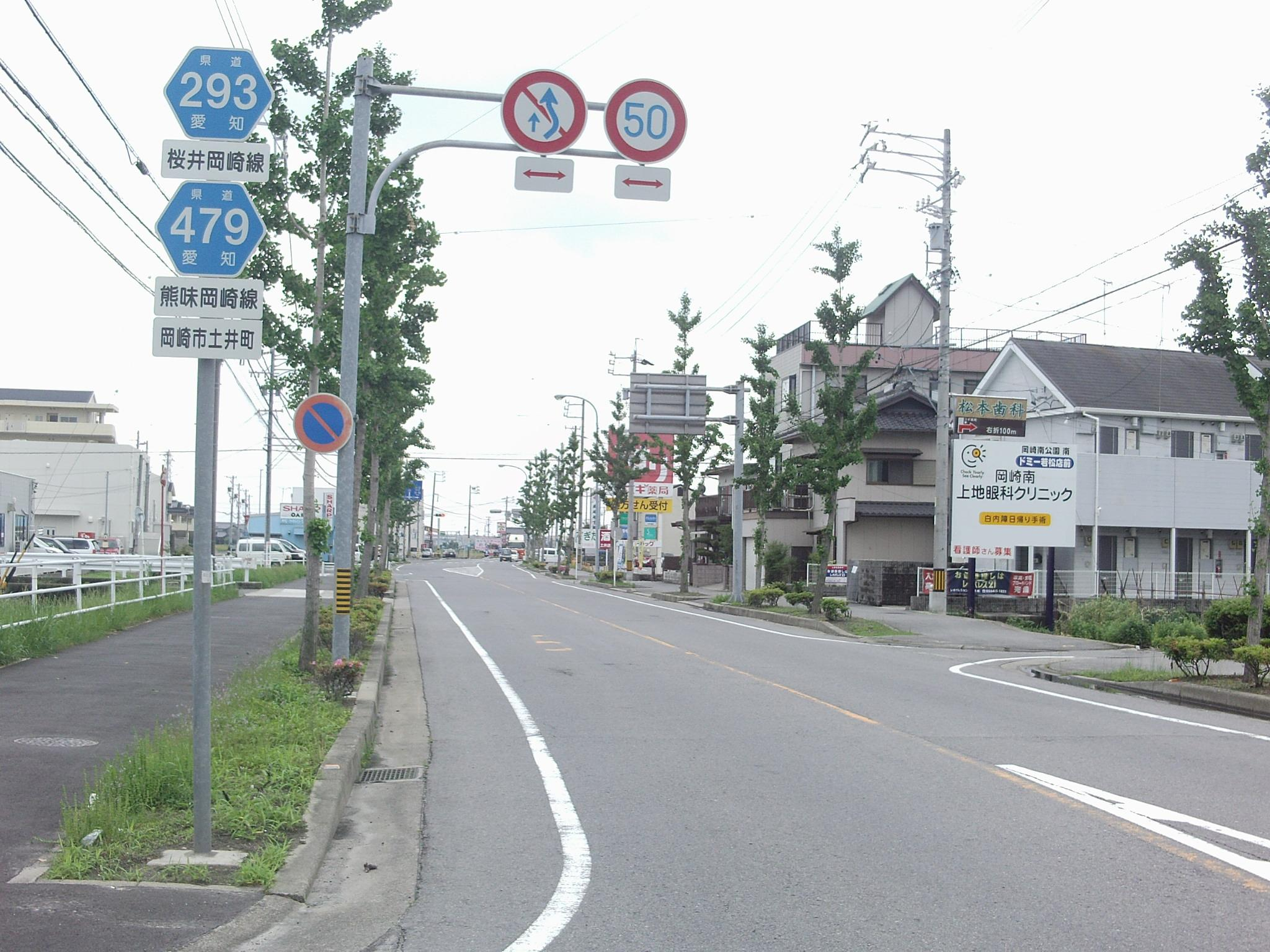 Aichi prefectural road No.293 and No.479 overlap zone in Doicho, Okazaki, Aichi.